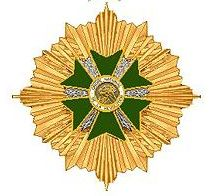 Star Rwanda Order of the Revolution